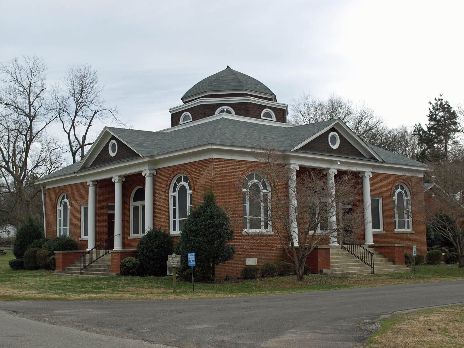 New Market United Methodist Church in New Market, Alabama, listed on the National Register of Historic Places